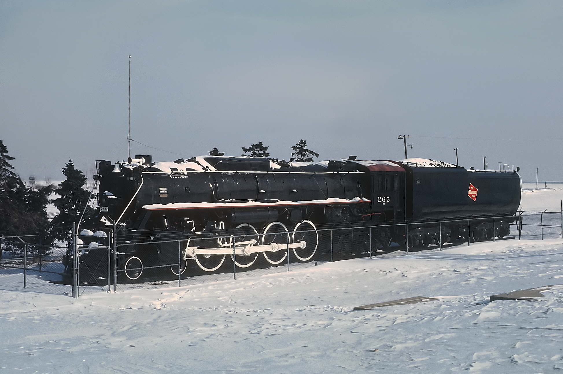 Roger Puta photograph